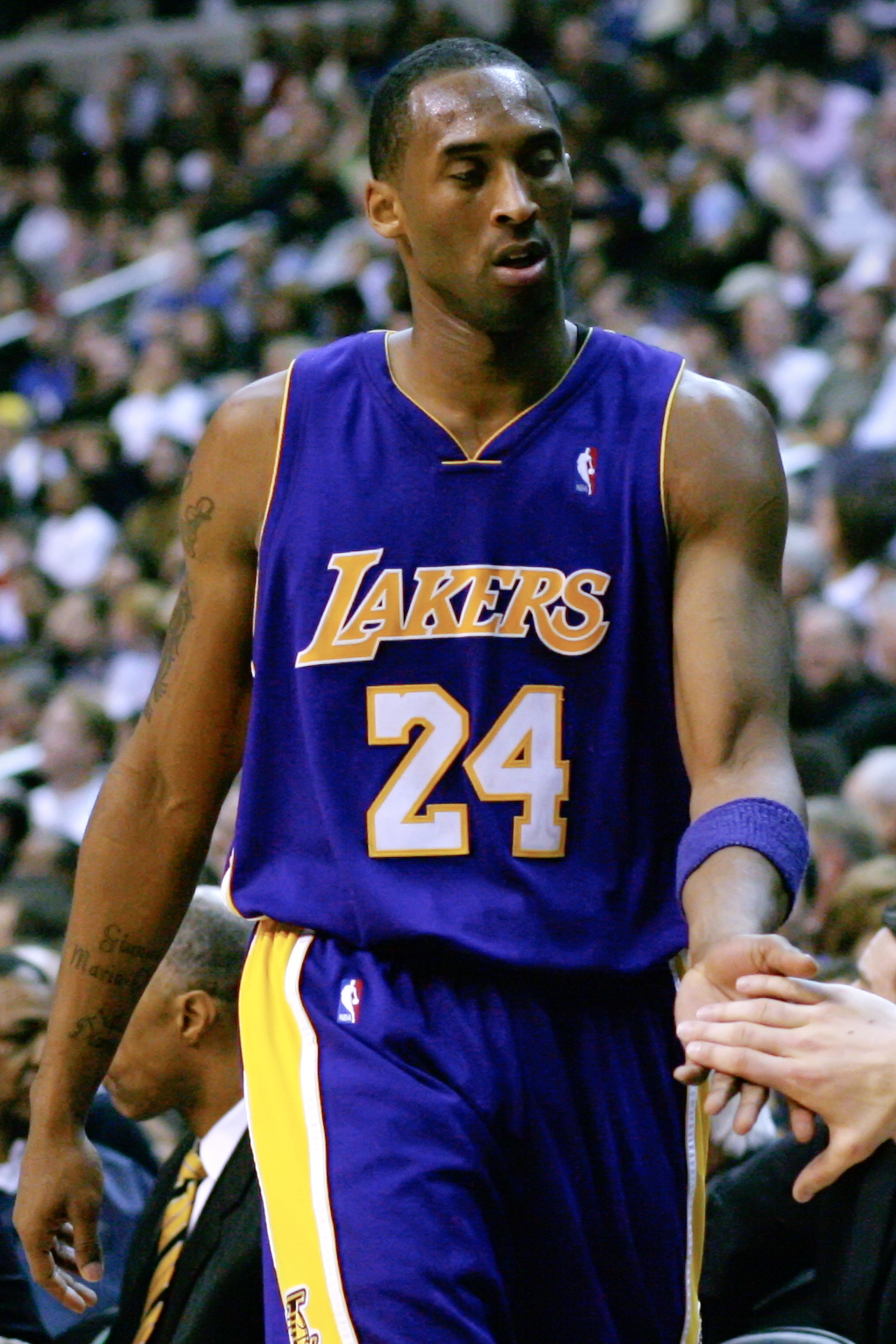 Kobe Bryant subs out vs the Washington Wizards.